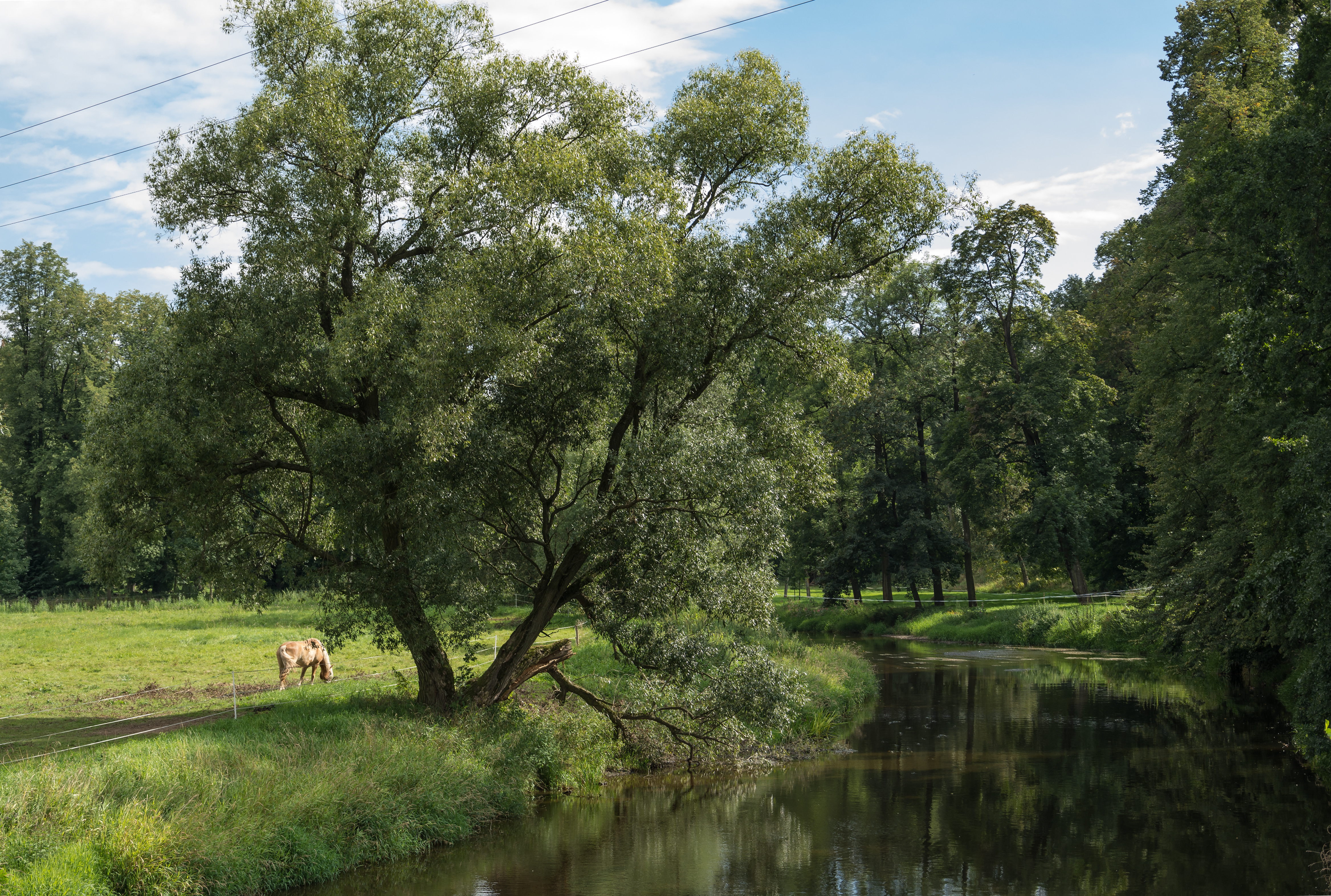 Bóbr River in Wojanów